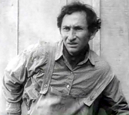 Cropped screenshot of Arthur Hunnicutt from the trailer for the film Stars in My Crown.